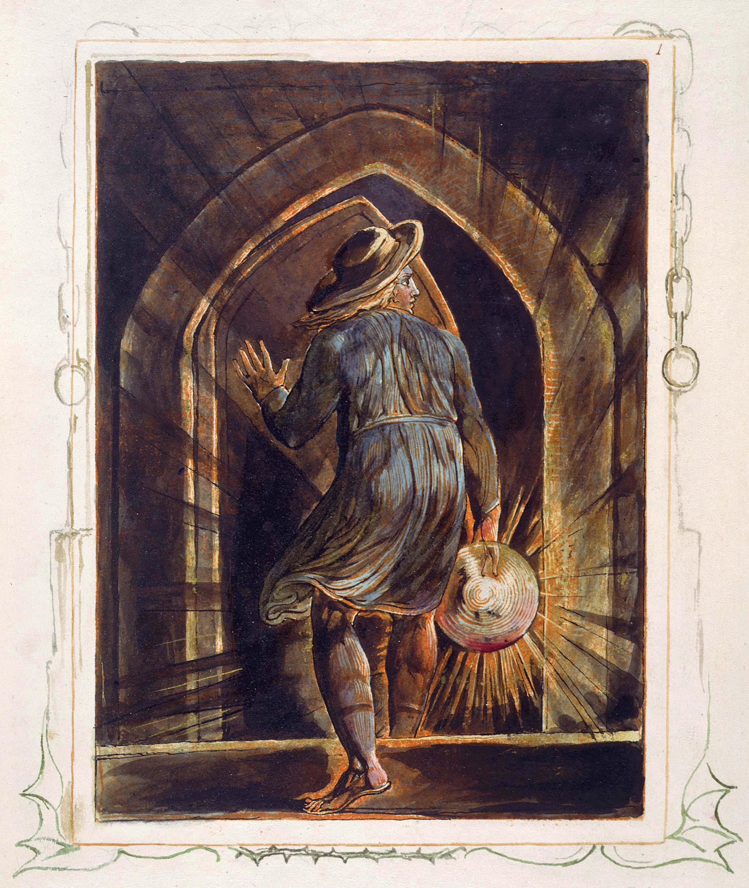 William Blake, Plate 01 Jerusalem (copy E)